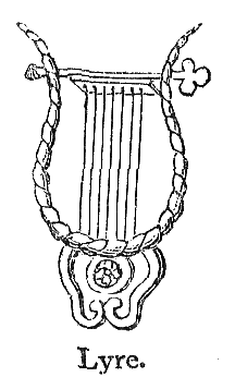 Illustration from 1908 Chambers's Twentieth Century Dictionary. Lyre, n. a musical instrument like the harp, anciently used as an accompaniment to poetry.